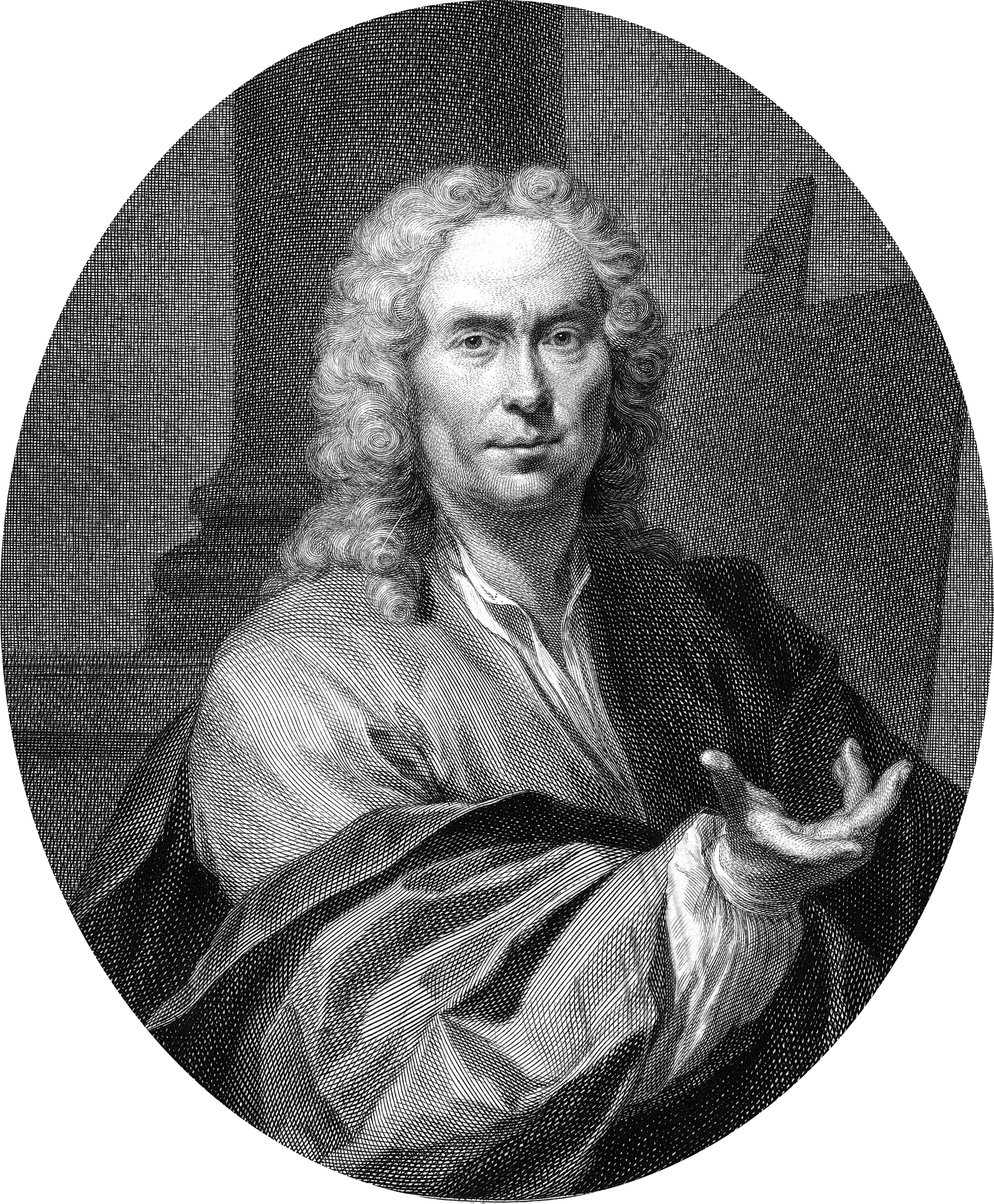 Nicolaas Verkolje (Delft 11-apr-1673 - Amsterdam 21-jan-1746) engraving 1751 - 1753